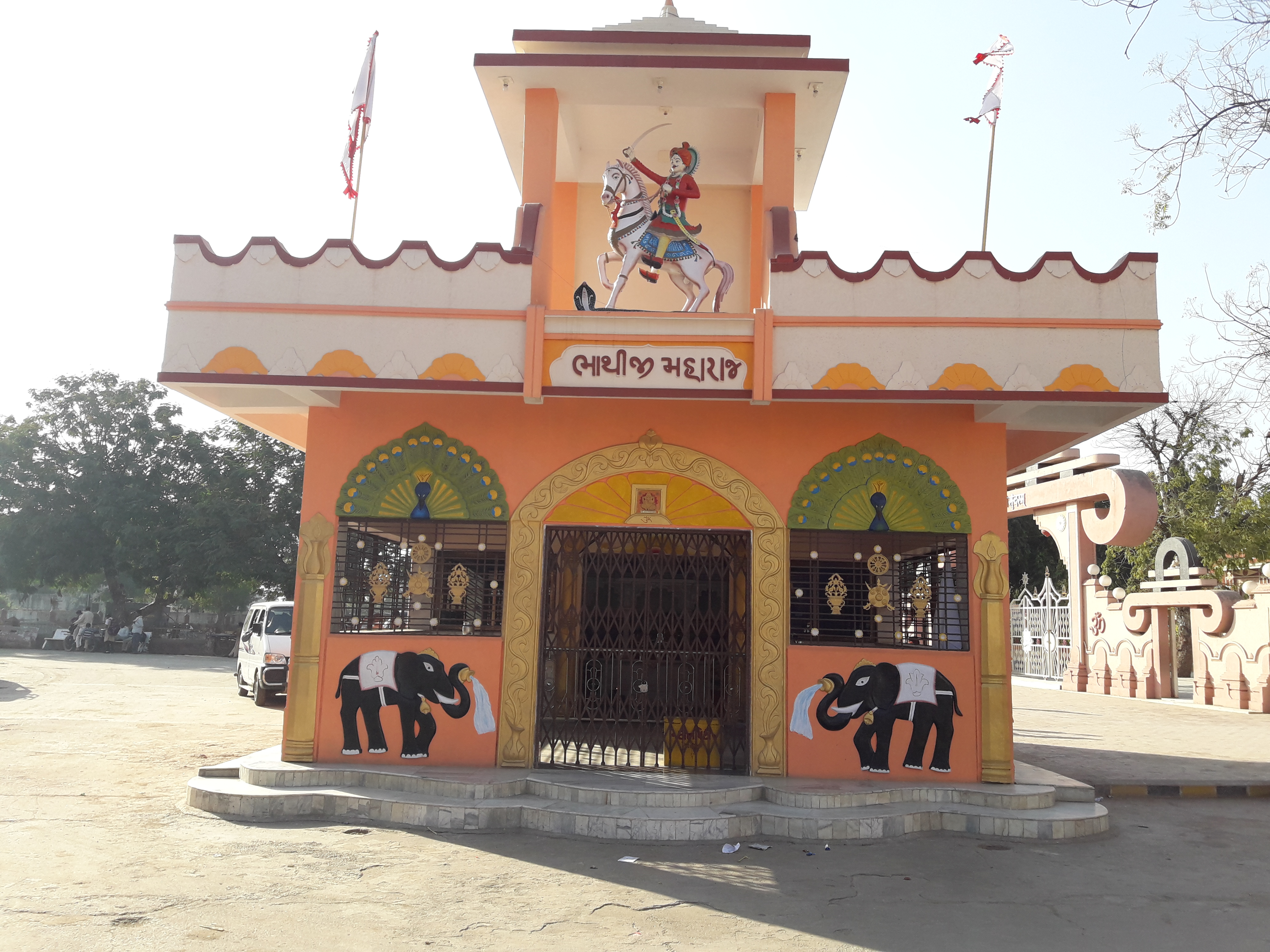 Bhathiji Temple at Savli of Vadodara district, Gujarat, India.